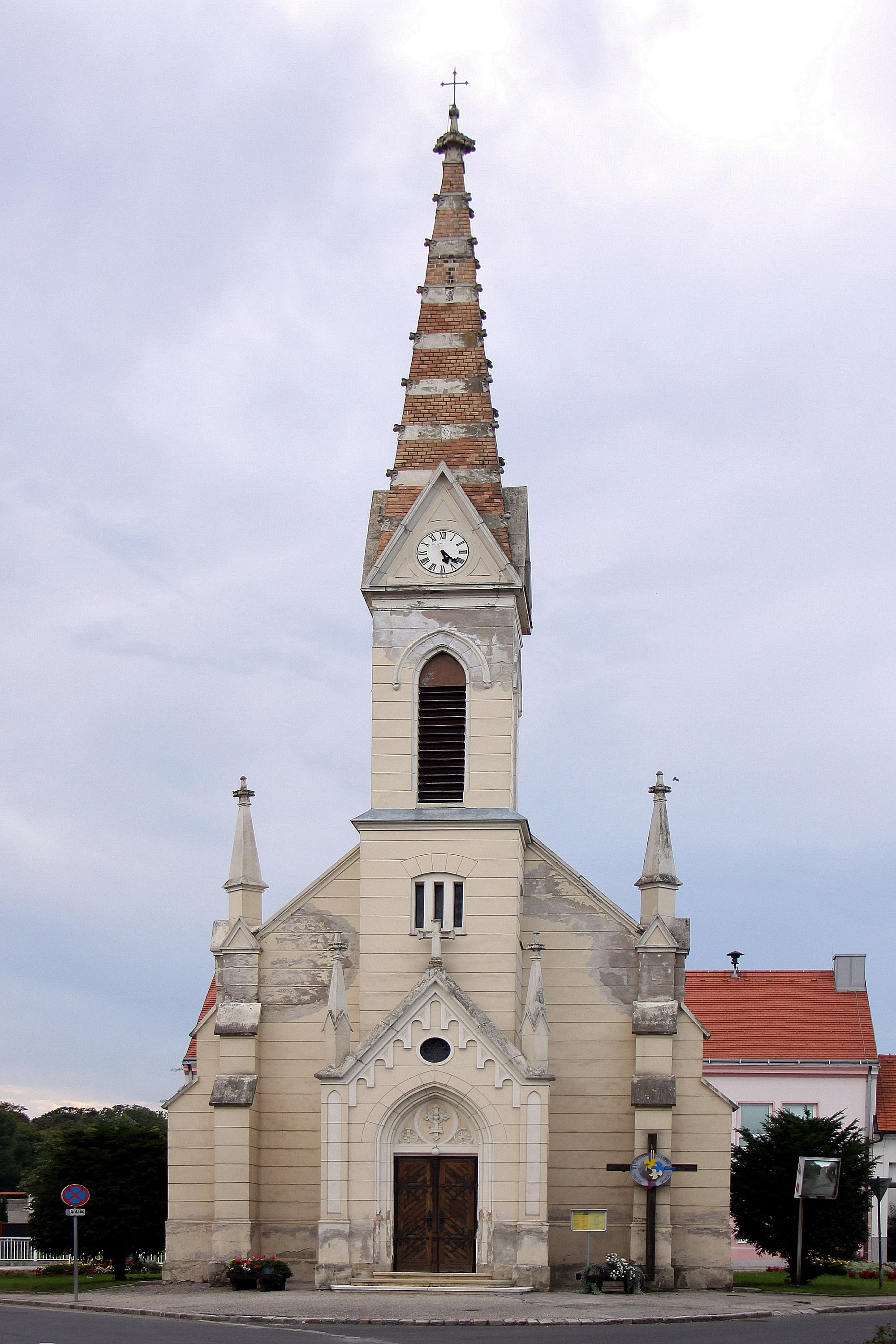 Chapel of ease holy Rochus - Hirm Object location47° 47′ 13.48″ N, 16° 27′ 16.9″ E